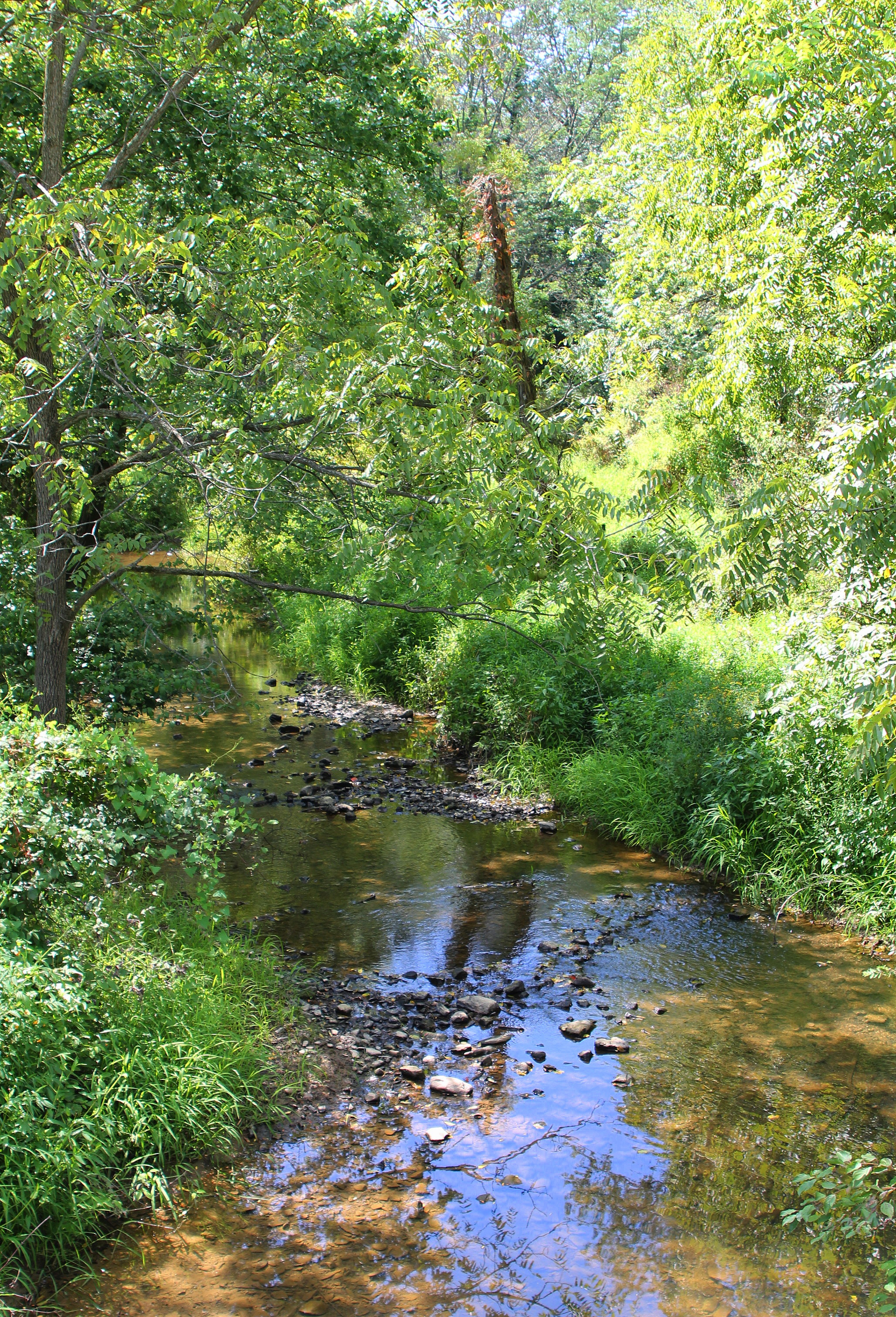 Plum Creek looking downstream from QR 4016